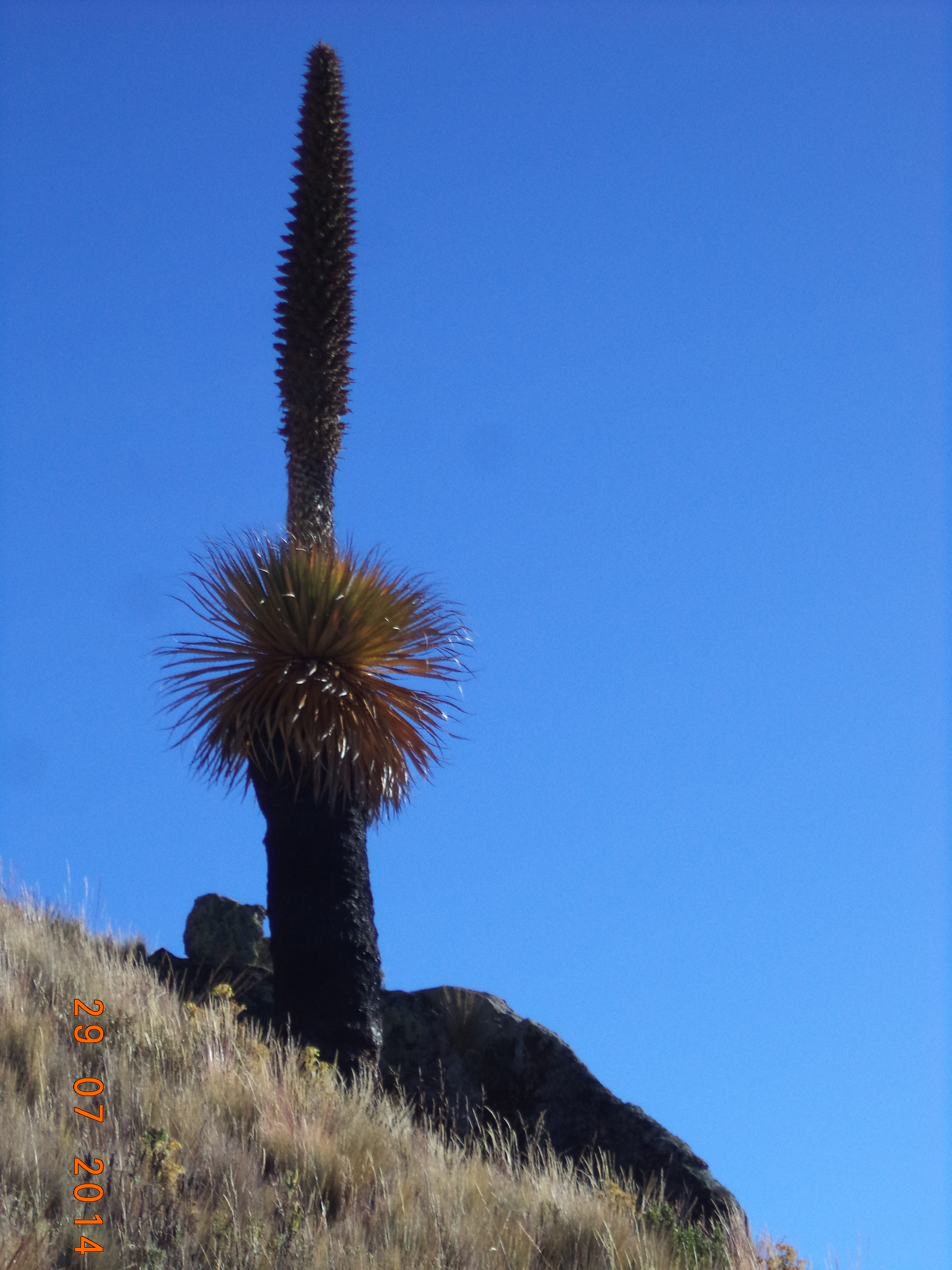 Puyas Raimondi